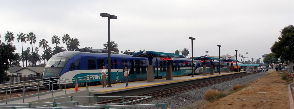 San Diego SPRINTER train at Oceanside Transit Center